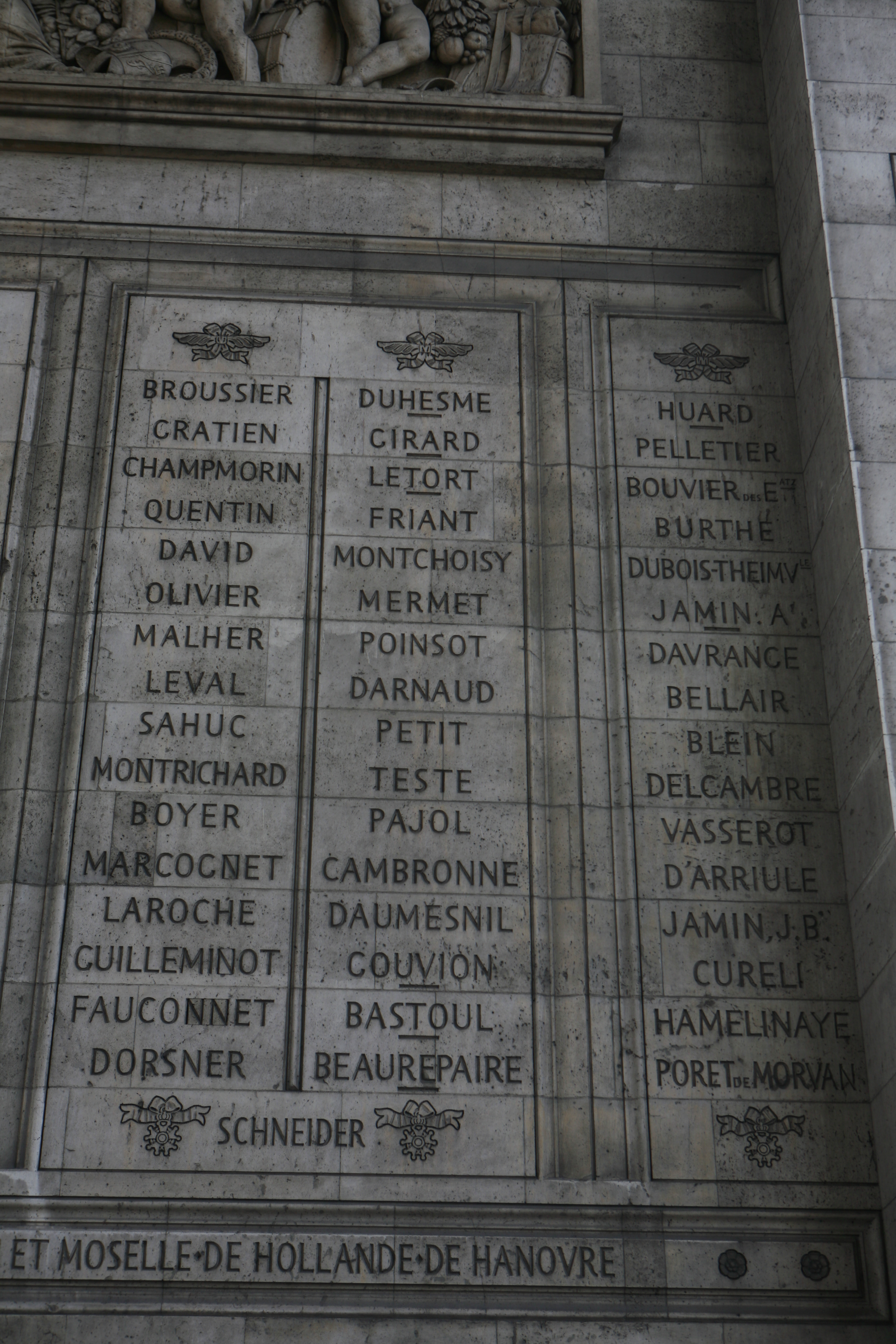 Details of the Arc de Triomphe. Northern pillar, Columns 7,8,9